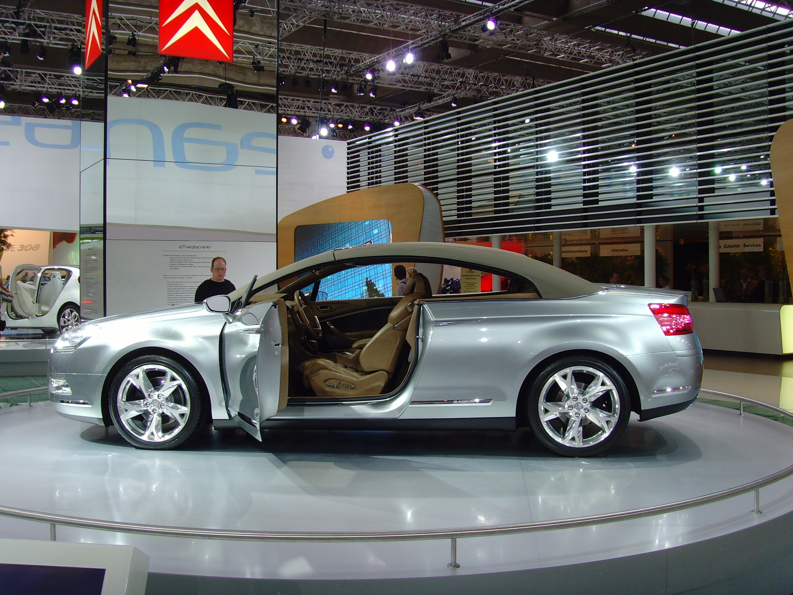 Citroën C5 Airscape at 2007 IAA